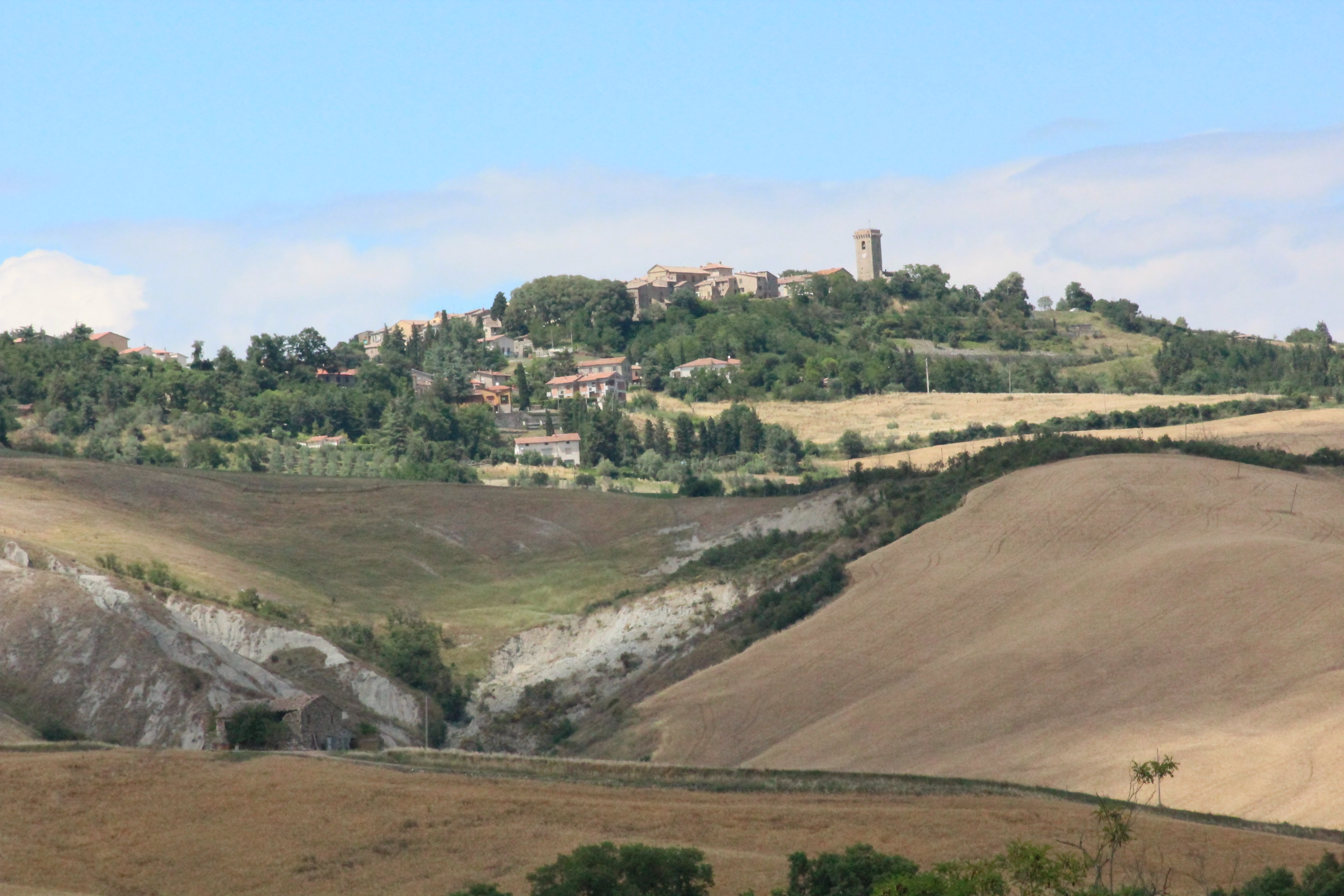 Panorama of Celle sul Rigo, hamlet of San Casciano dei Bagni, Province of Siena, Tuscany, Italy